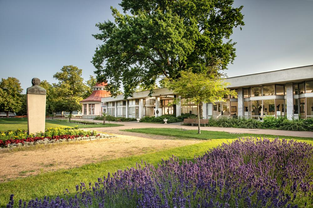 Galerie Ludvíka Kuby Poděbrady